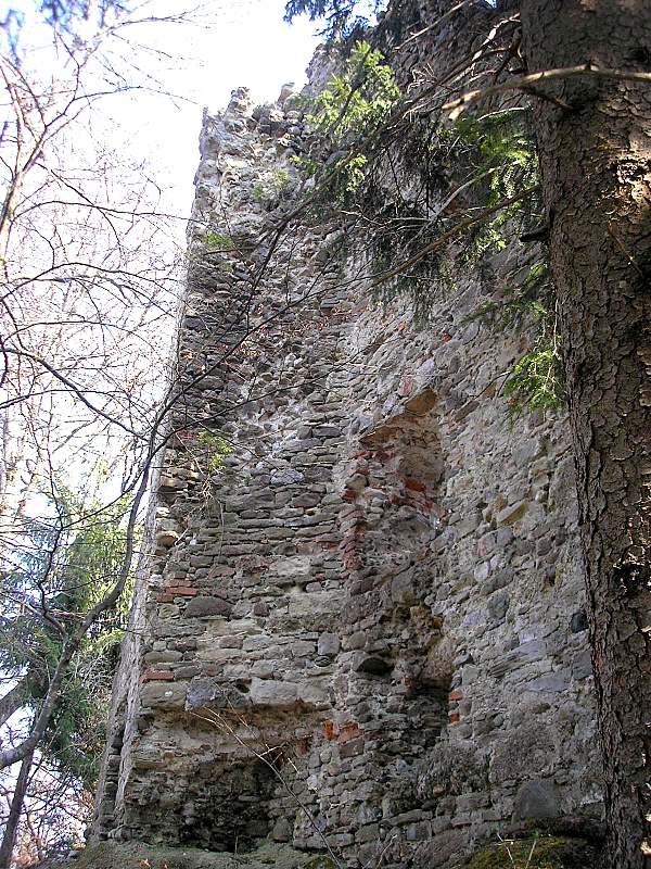 Rettenberg (Vorderburg) castle (Landkreis Oberallgäu, Bavaria, Germany). The central castle, western part